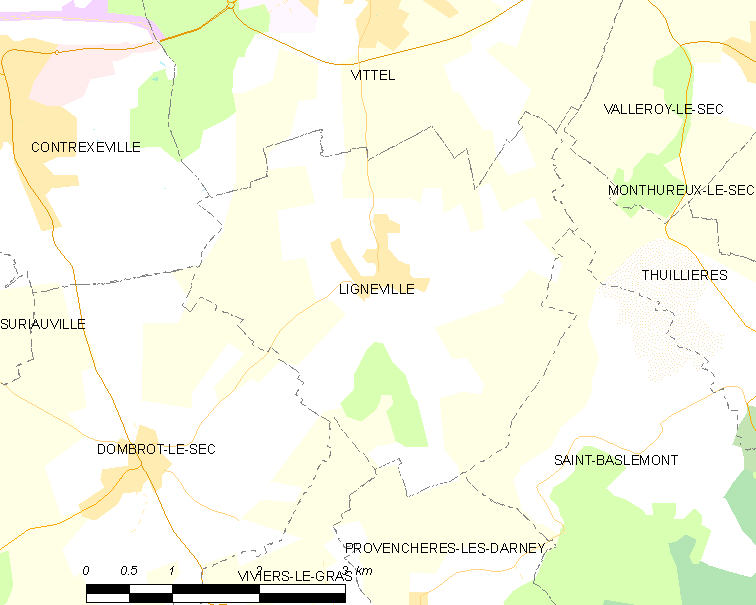 Map of French municipality Lignéville